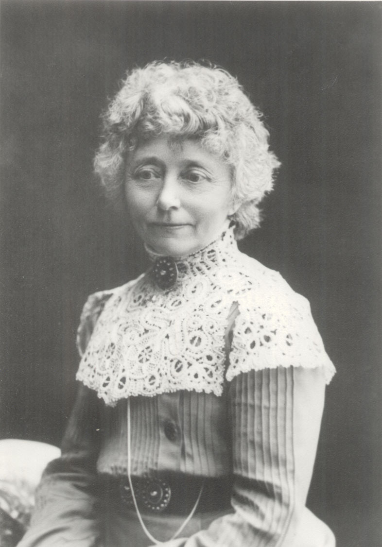 Artist: unknown Date/place: unknown Subject: Nina Grieg Medium: photographic positive, B&W Notes: none Persistent URL: Original belongs to Ringve Museum Trongheim Original reference: df0014